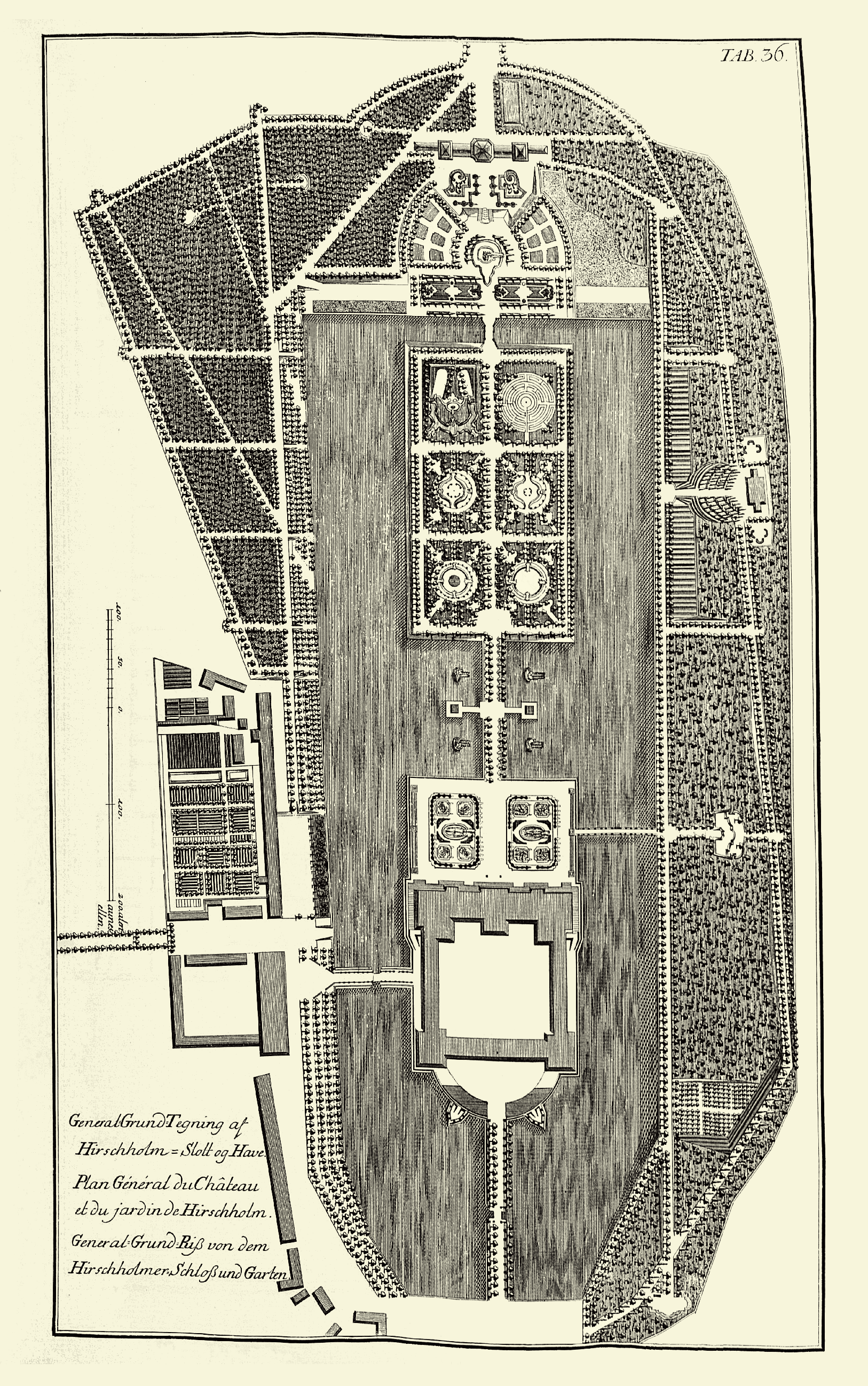 Hirschholm Palace and garden by Lauritz de Thurah